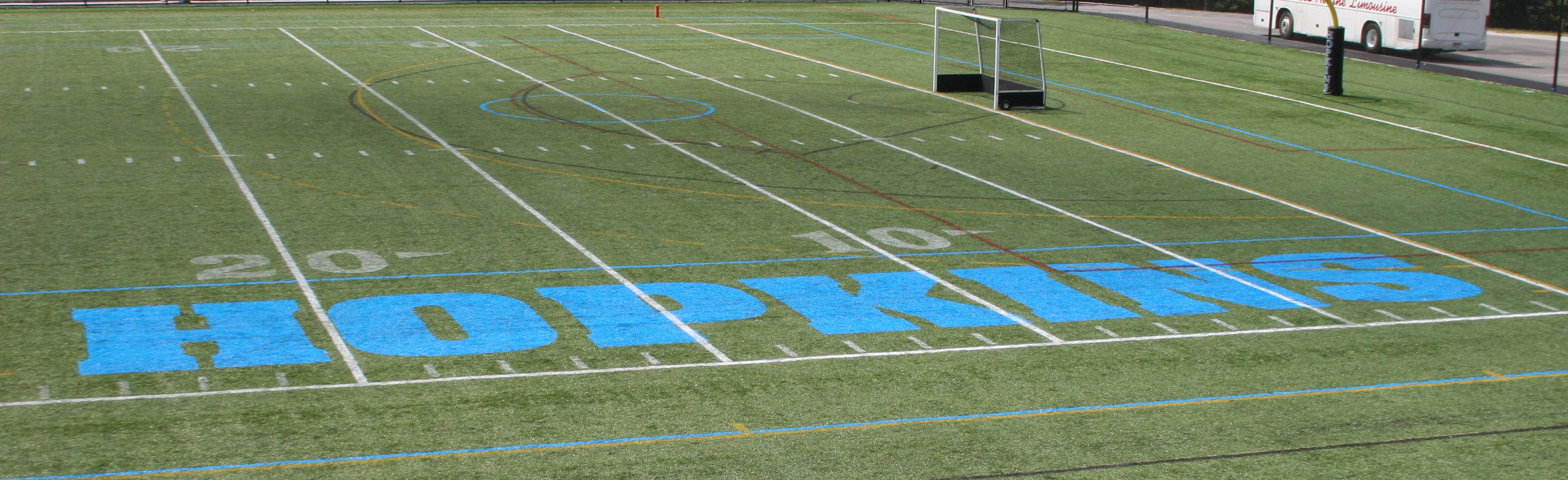 Cortland @ Hopkins. Unfortunately, the Blue Jays lost 5-4. September 3, 2006.